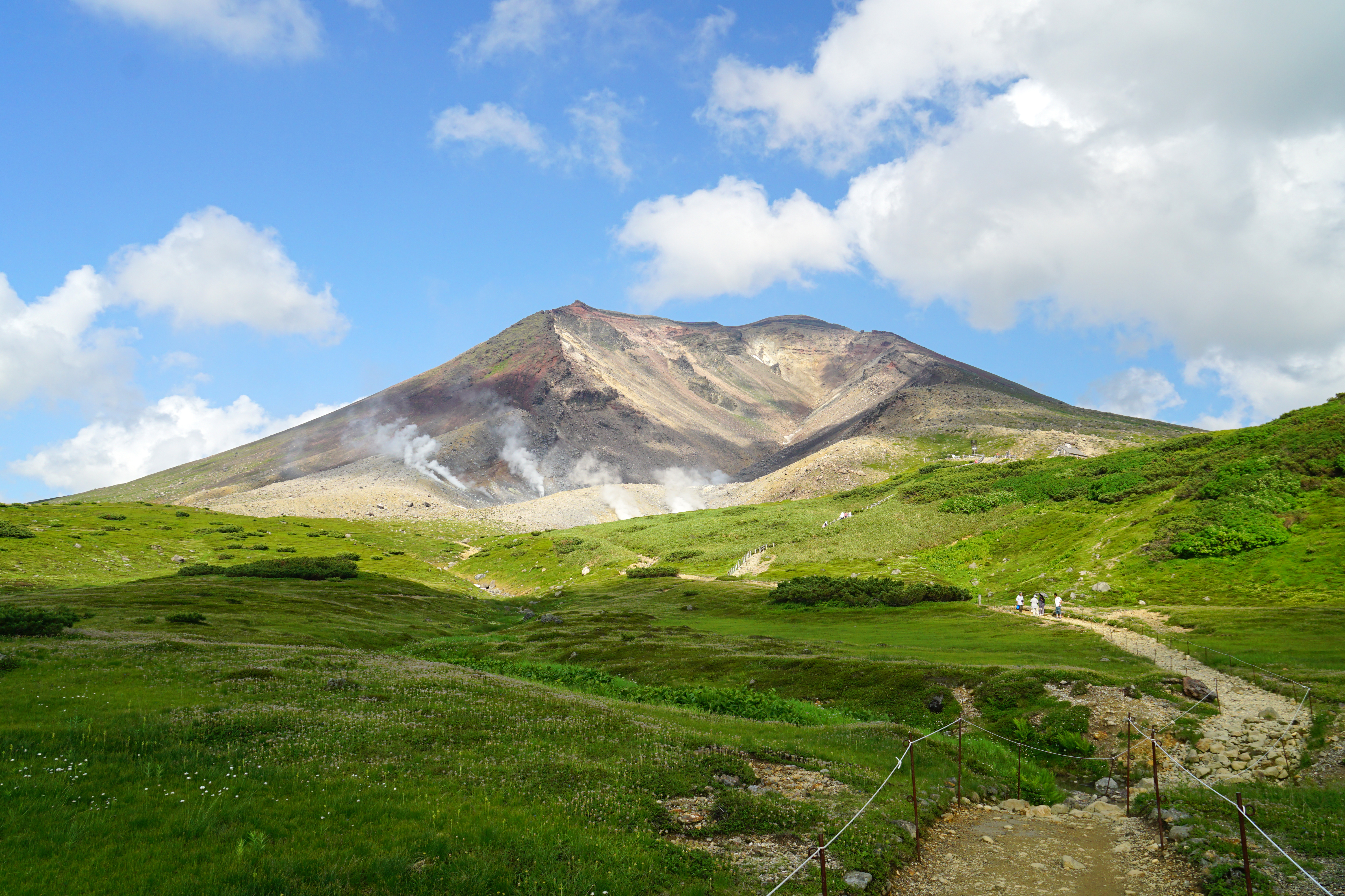 Asahi-dake in Higashikawa, Hokkaido, Japan.